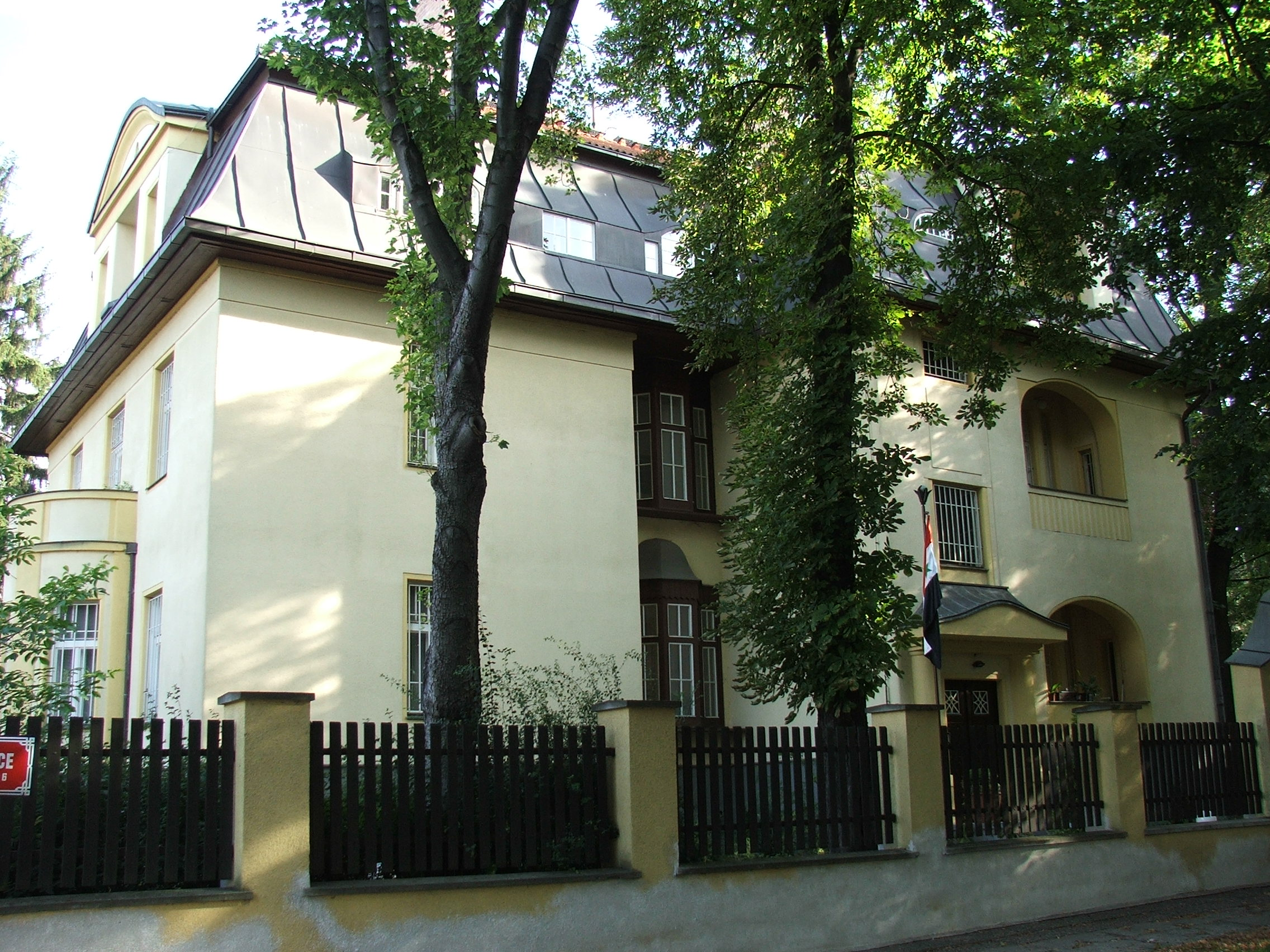 Embassy of Iraq in Prague - Bubeneč, Czechia